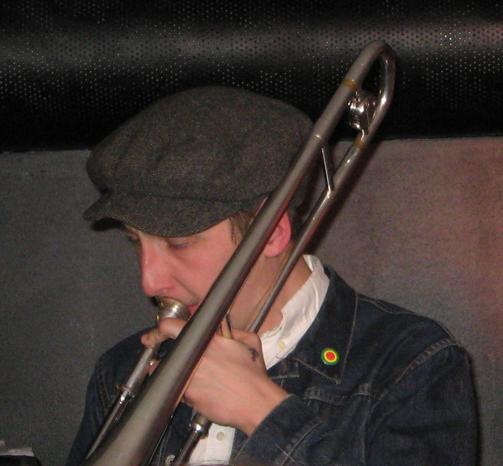 Viktor Brobacke playing with Molly in Stockholm 17 March, 2008.